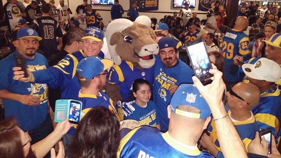 Picture of Rampage, the Los Angeles Rams' mascot, at a playoff watch party in Santa Fe Springs, Calif. shortly after the Rams announced their relocation back to Southern California.